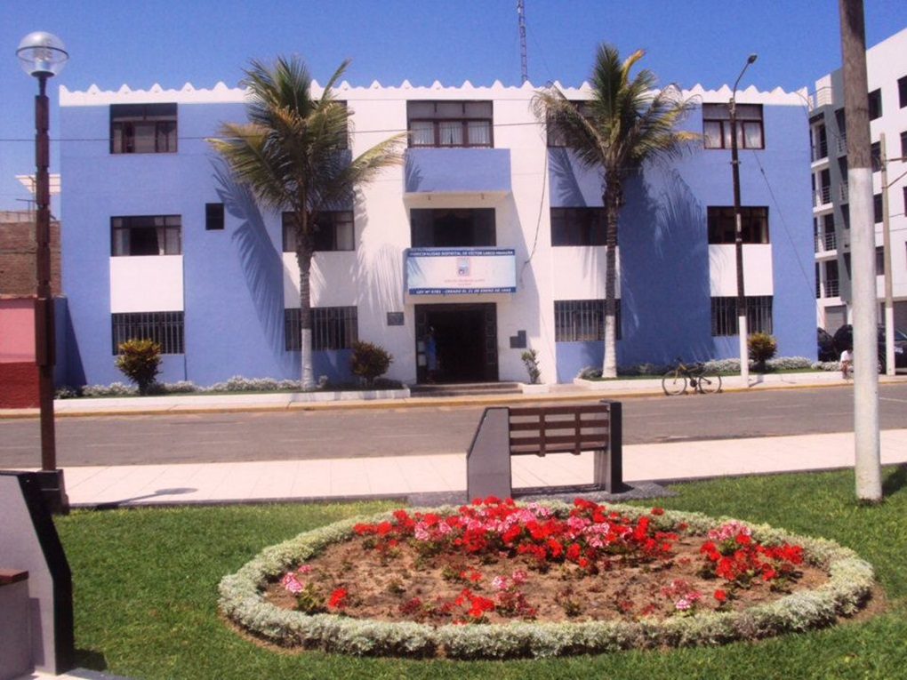 Municipalidad de Víctor Larco